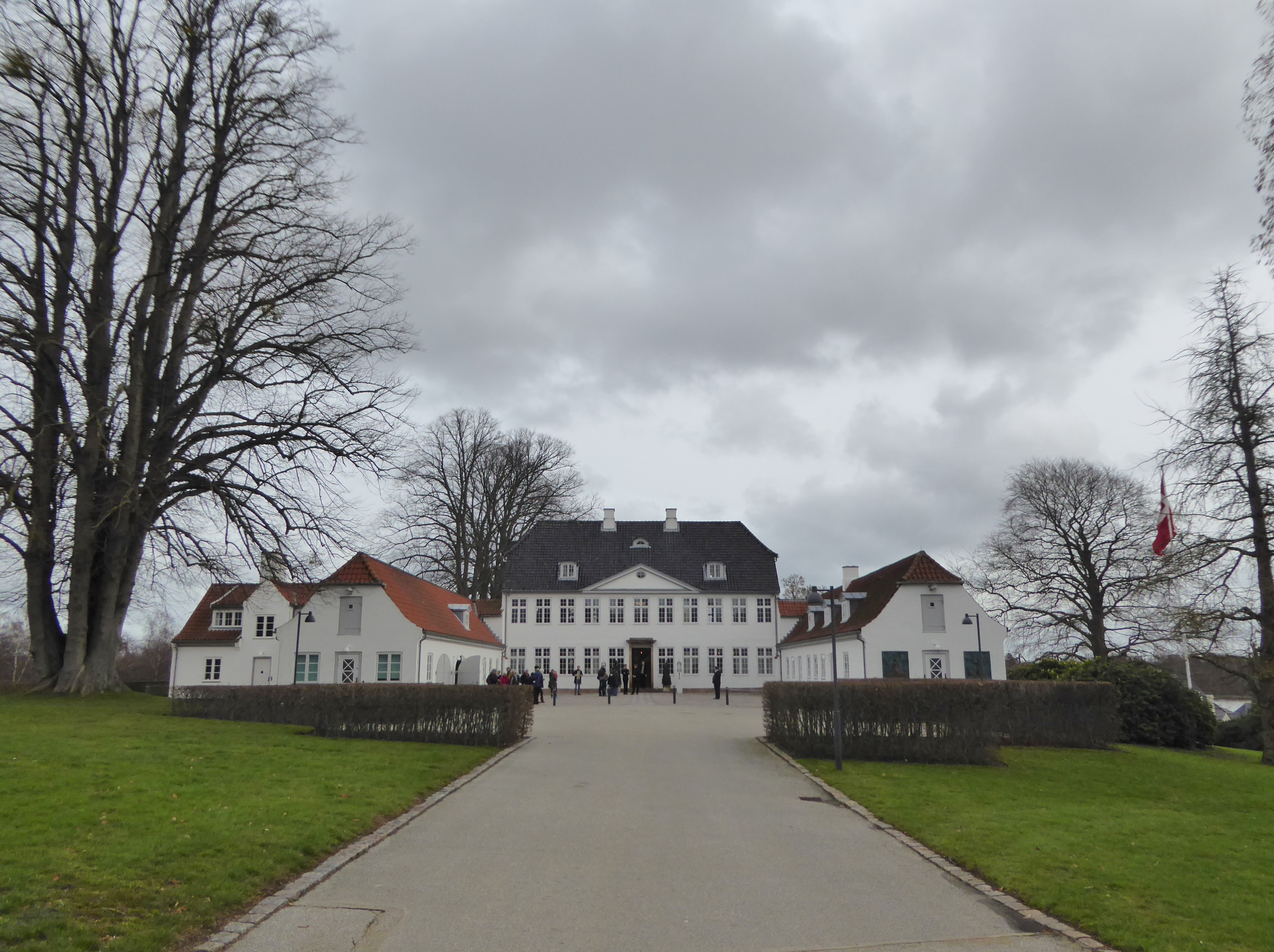 The mansion Marienborg of Copenhagen which is used as residence for the Danish prime minister and for representative purposes. It is usually closed for the public but after a renovation it was possible to take part in a conducted tour during a weekend.